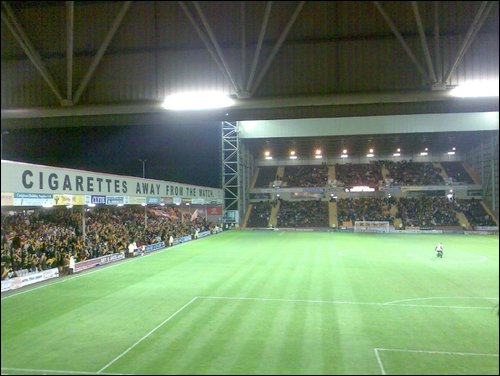 Well fans pour into Fir Park Stadium for the big game against AS Nancy in the UEFA cup.